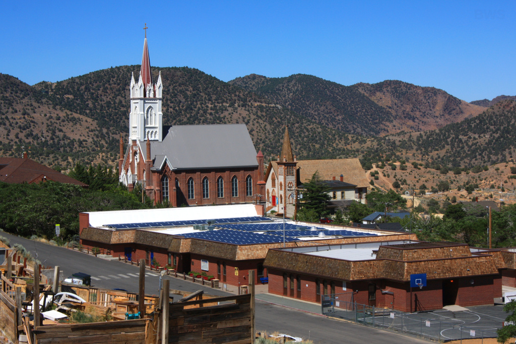 Virginia City, Nevada, USA, Saint Mary's (Catholic) and Saint Paul's (Episcopalian) - Saint Mary's is the larger church on the left.